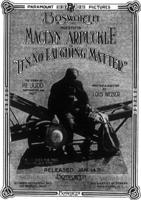 Advertisement for the American comedy drama film It's No Laughing Matter (1915) with Macklyn Arbuckle, on page 30 of the January 16, 1915 Variety.